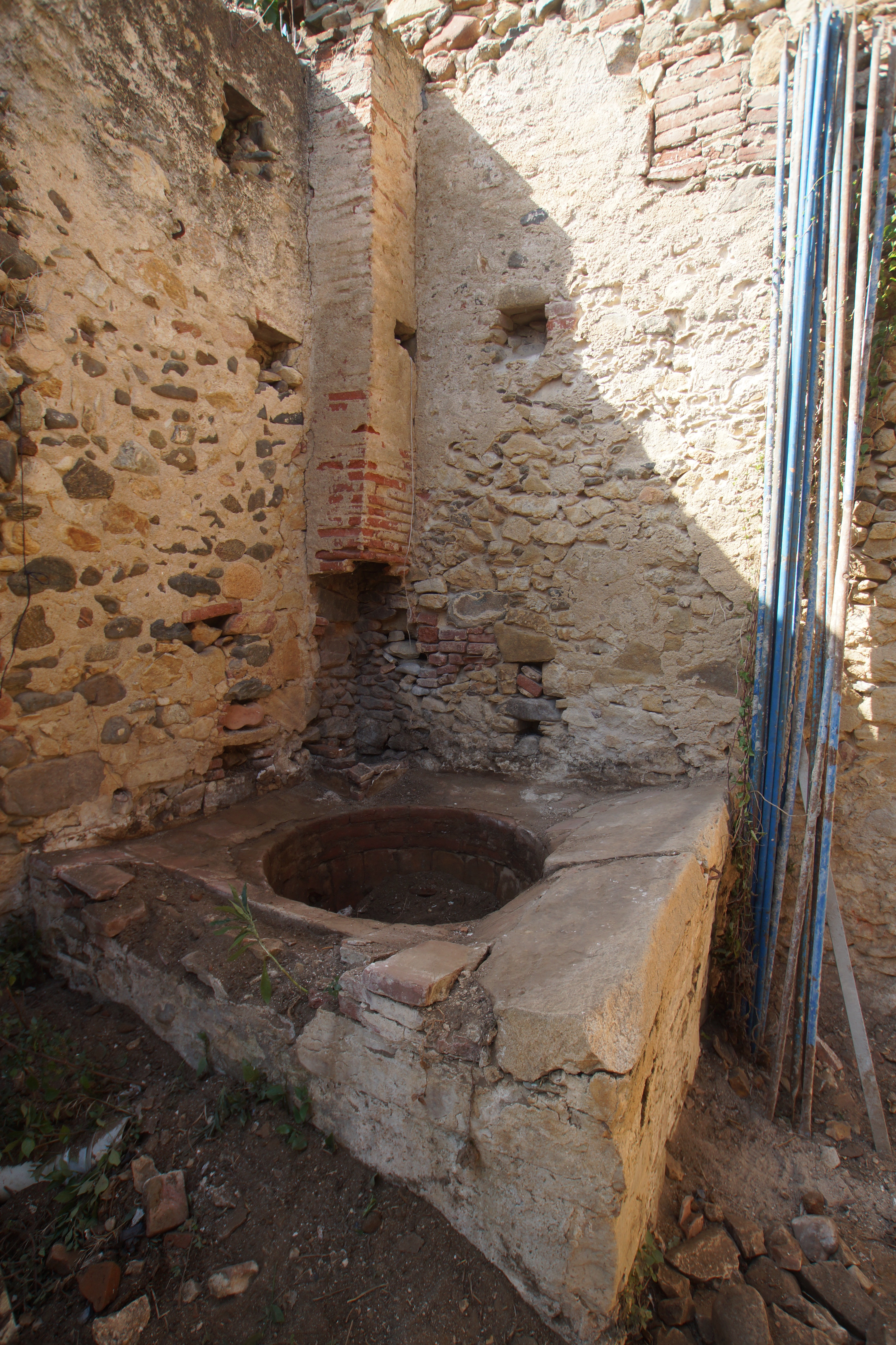 Calonge (Carrer Enric Lluís Roura), Catalonia: Ruins from on old cork cooking oven